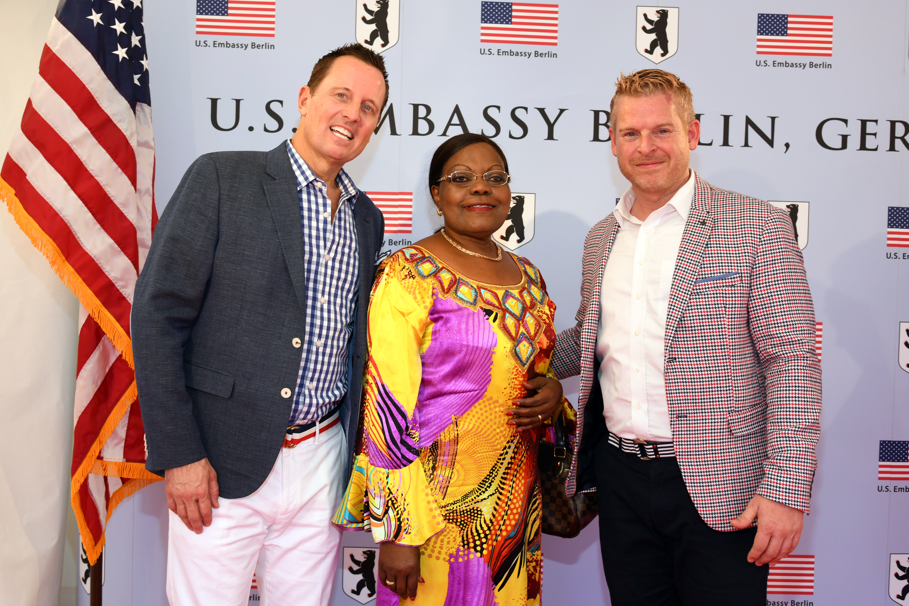 Richard Grenell, Clémentine Shakembo Kamanga, & Matt Lashey, Sommerfest der US Botschaft Berlin, 4th of July 2018